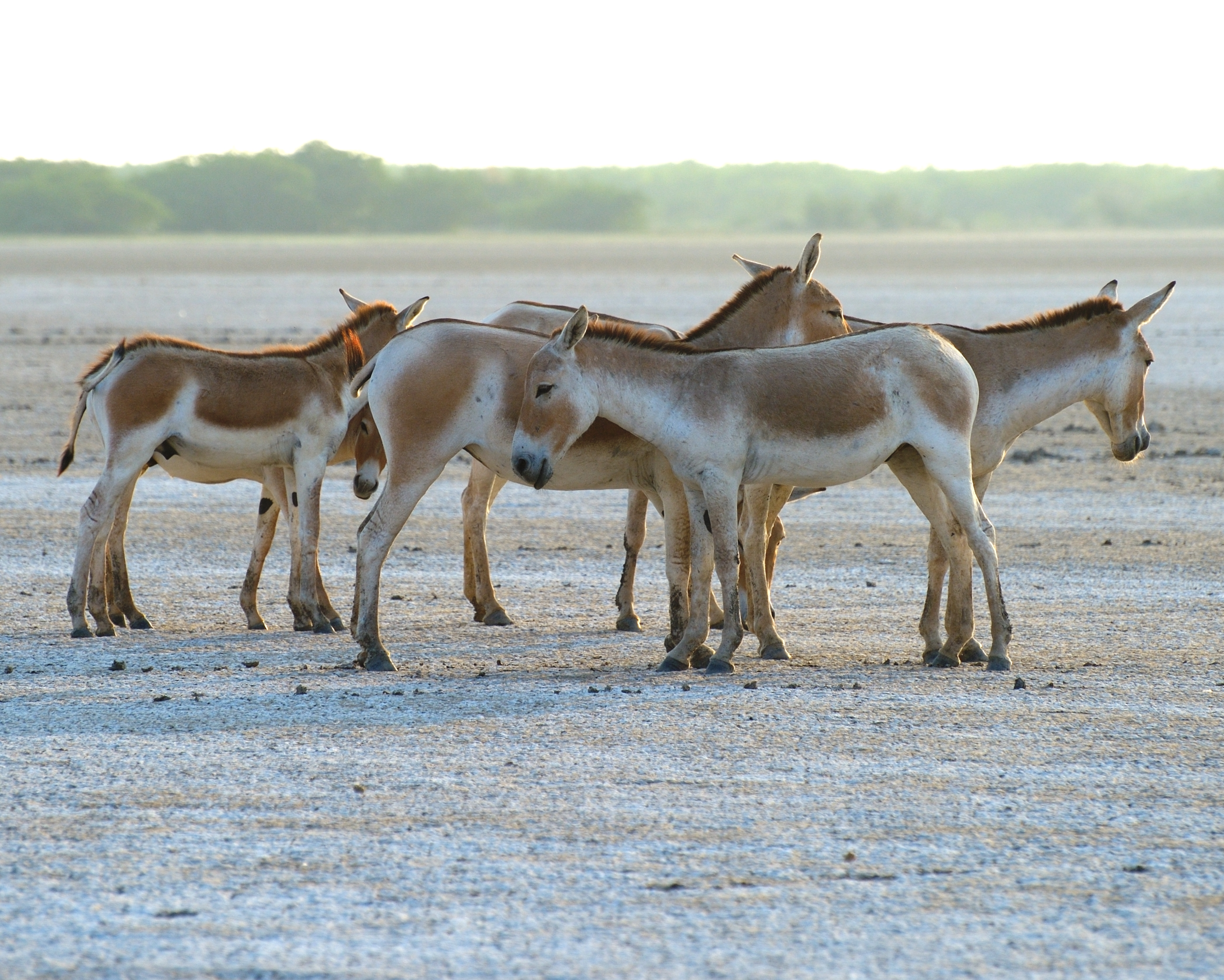 Indian Wild ass (Ghudkhur) family at the Wild Ass Sanctuary, Little Rann of Kutch, Gujarat